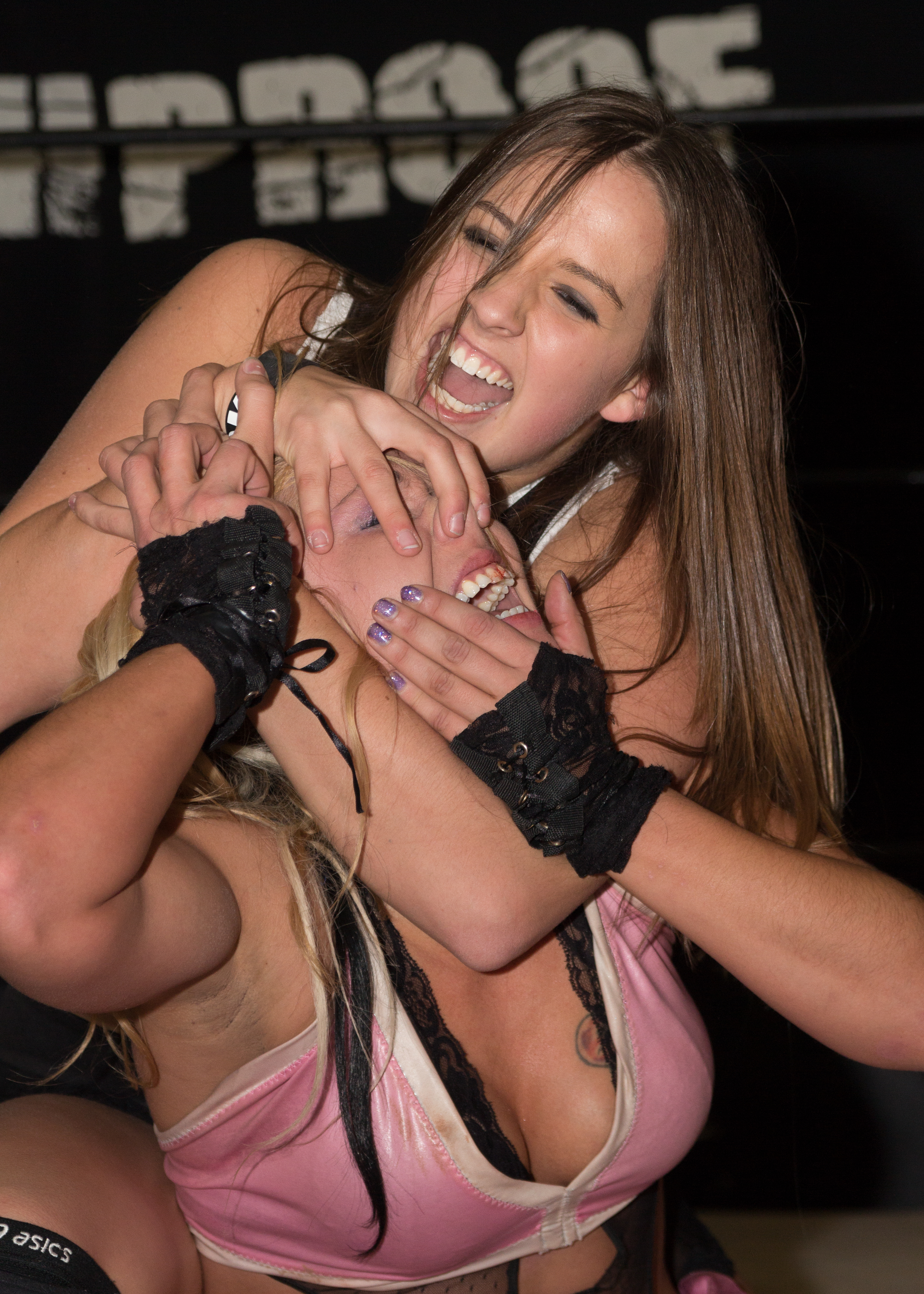 Mary Dobson attempting to put a facelock on Jewells Malone at a Deathprood independent wrestling show at the Rockpile West in Etobicoke, ON